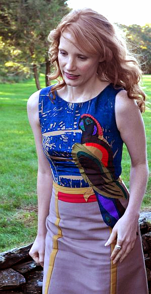 Actress Jessica Chastain attends 18th Annual Hamptons International Film Festival Chairman's Reception on October 9, 2010 at the home of Stuart Suna in East Hampton, New York. (Photo © Nick Stepowyj)